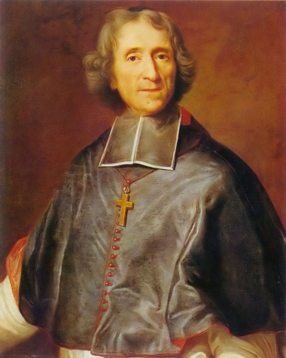 Portrait of Fénelon